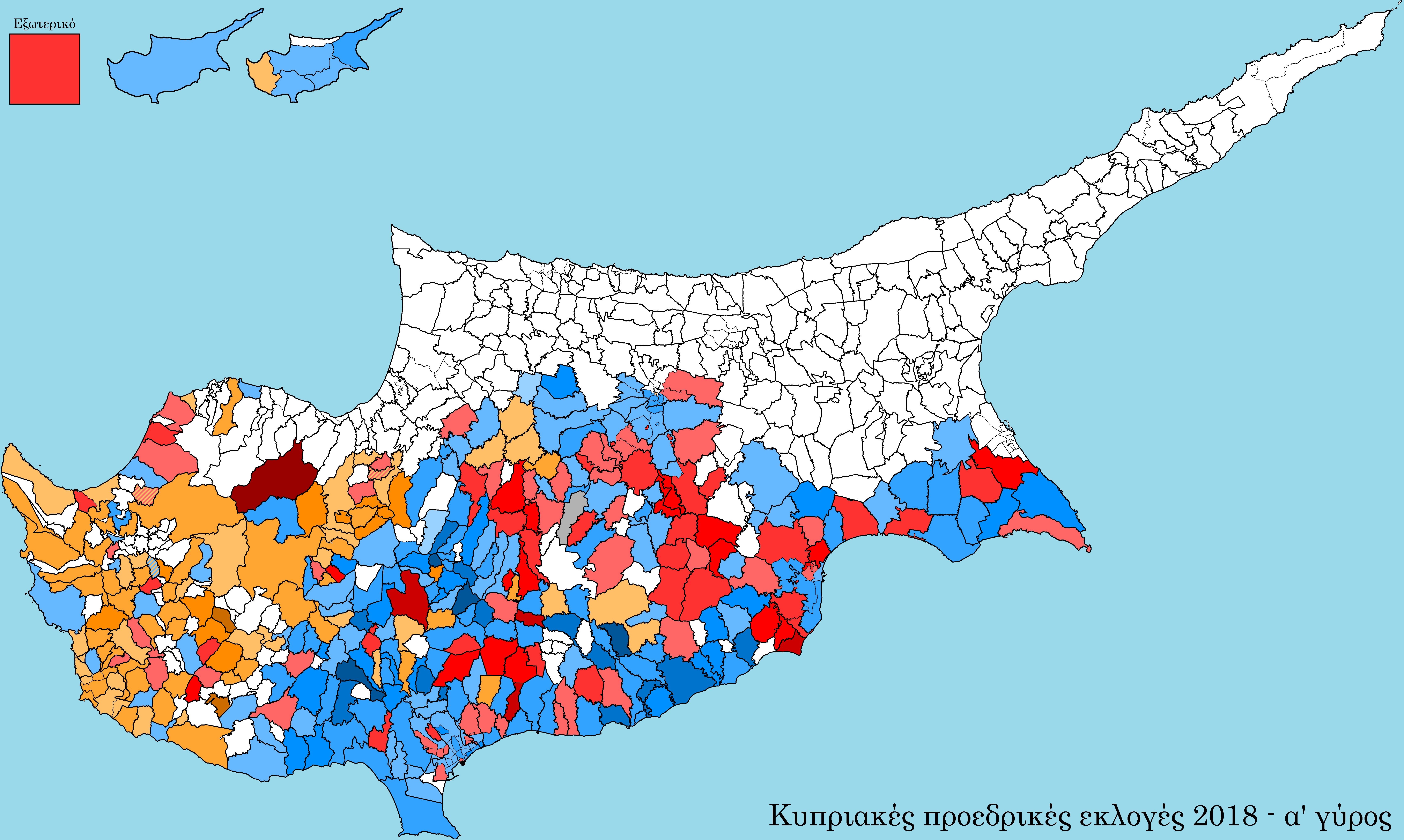 A map of the first round of the 2018 Cypriot presidential election